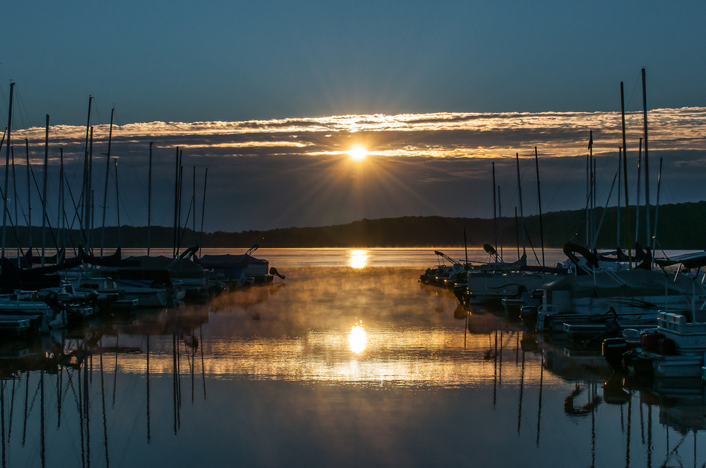 Early morning at the Lake Nockamixon Marina. Taken September 9, 2012. (Dan Kirby Photography)